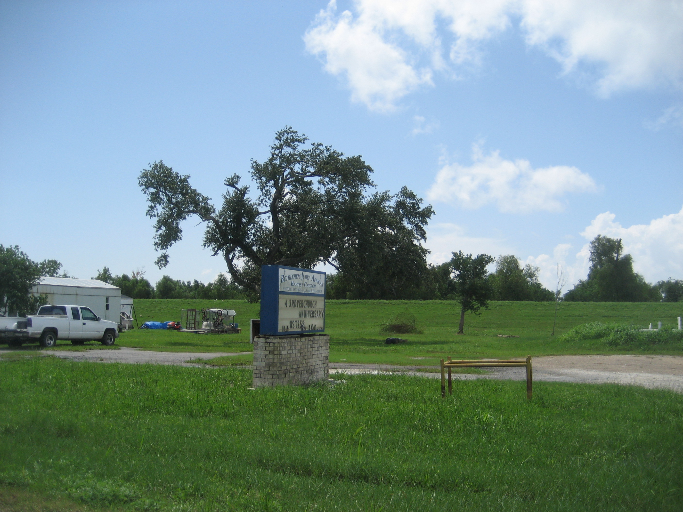 Bohemia, Plaquemines Parish, Louisiana. Sign for the Bethlehem Judea African Baptist Church, 4 years after the community was almost completely destroyed during Hurricane Katrina. The landmark 143 year old brick church building was reduced to rubble in the disaster. This is a church sign without a church.